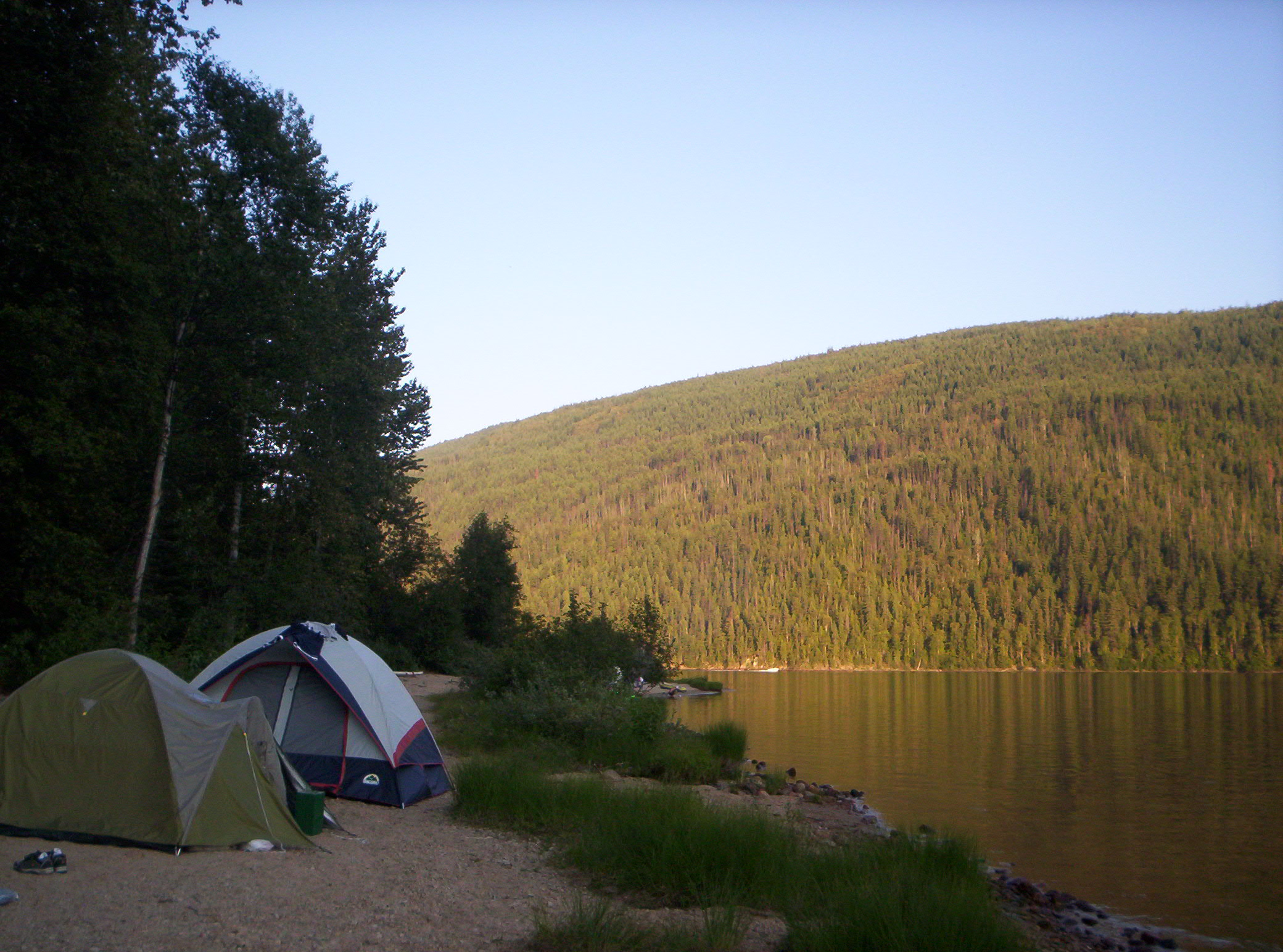 Camping by Barriere Lake, Barriere, British Columbia, Canada.